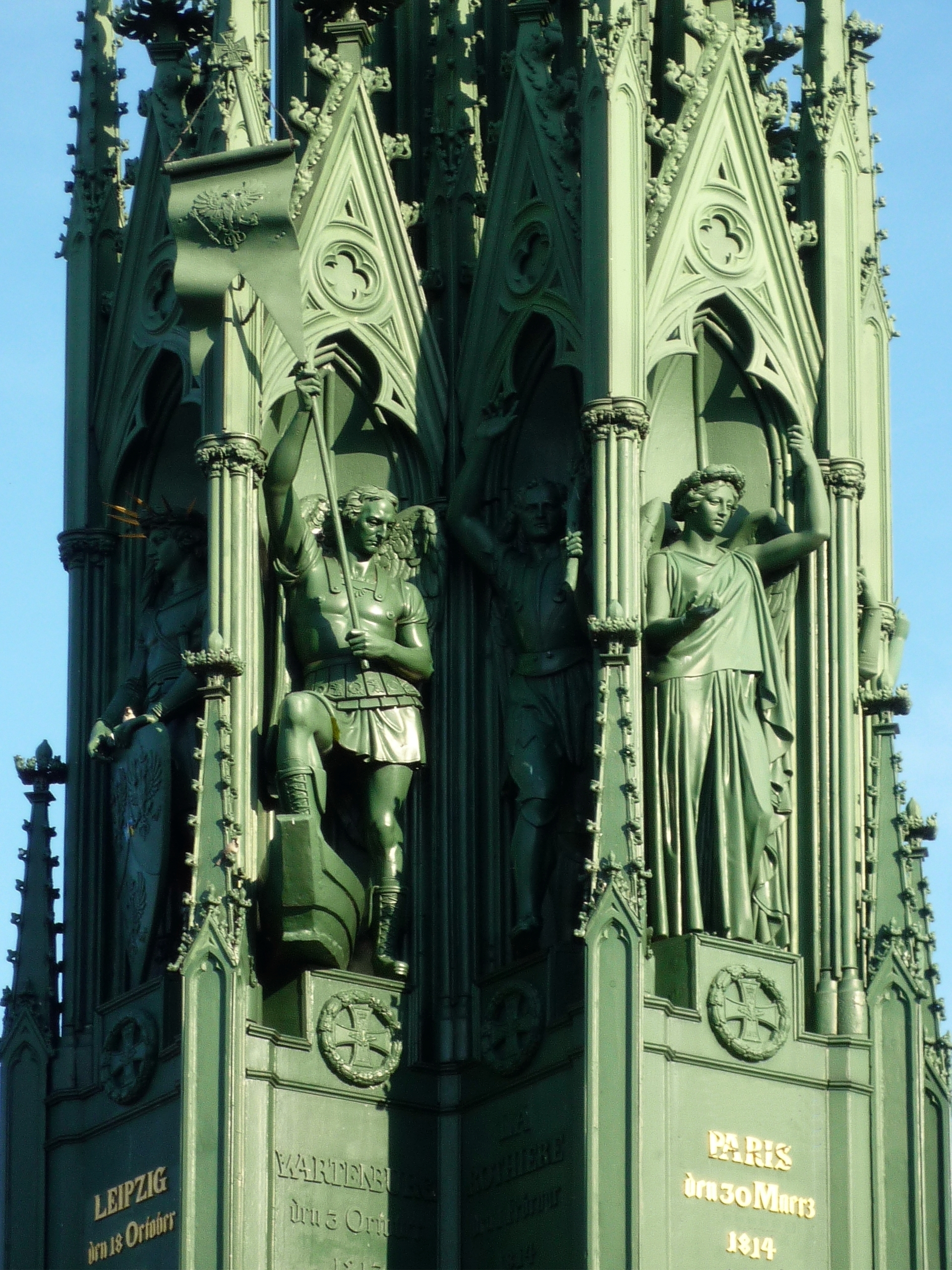 Viktoriapark in Berlin-Kreuzberg. National memorial for the war of liberation against Napoleon Bonaparte, ceremonially opened in 1821. Detail.